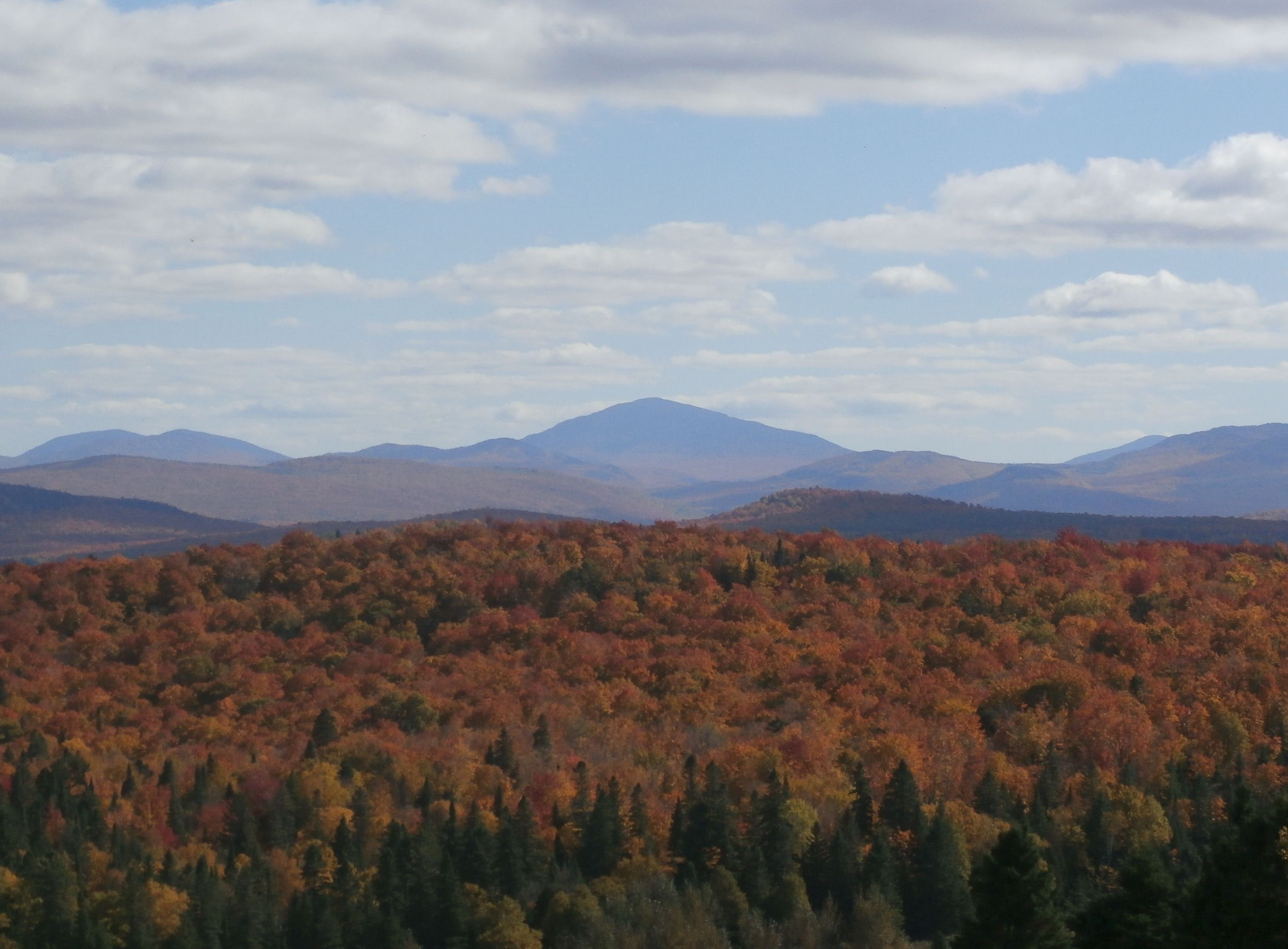 Snow Mountain, 1210 meters (3960 ft), is 8 km east from the Canada-US border in Maine (seen from Piopolis).